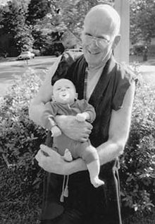 Colin Turnbull. (Lobsong Ridgol) holding a friend's baby, Gainesville, Florida, 1993. Photo by Michael Radelet. Colin told Thubten Norbu, the eldest brother of the Dalai Lama, "I want to be free of all my attachments so I can truly be free to help others. That means no less than self-perfection...I will be a good monk, I promise."